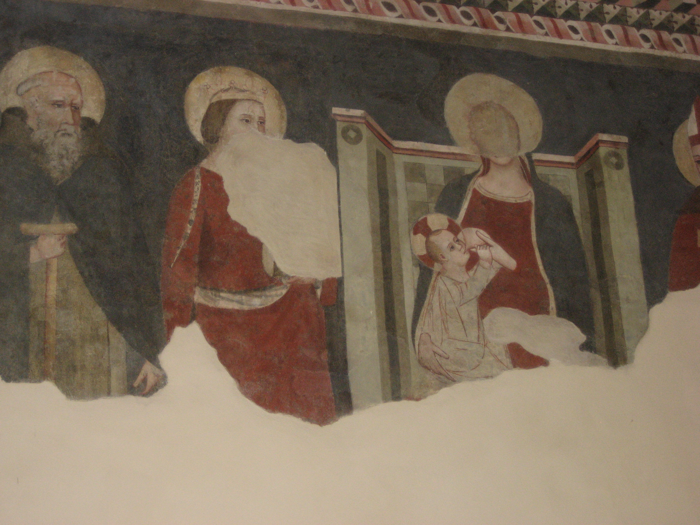 I in the right aisle of the Cathedral of Atri, it represents the Madonna of the Milk among some saints that can be identified in Anthony abbot, Caterina in Alexandria and Berardo. Realized at the end of the '300 from the Maestro of Offida.